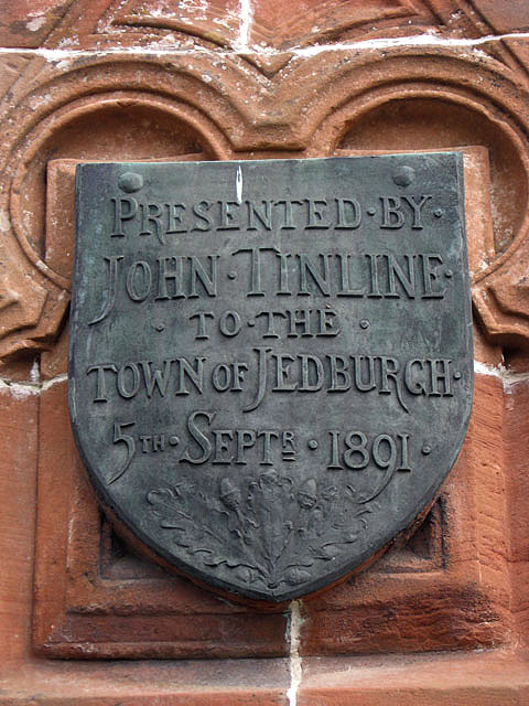 Plaque on the entrance to Allerley Well Park. One of two shields either side of a well at the main entrance to the park from the A68. For a view of the entrance, see 771799.